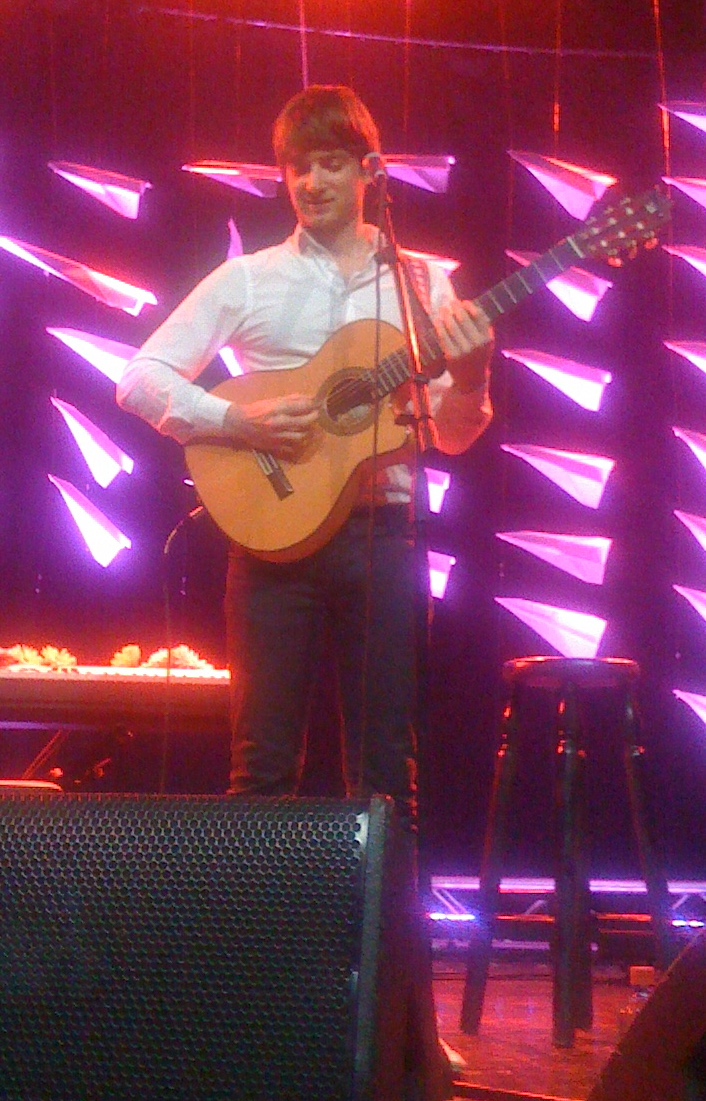 Eirik Glambek Bøe (Kings of Convenience) performing live at Teatro la Cúpula, Santiago de Chile.